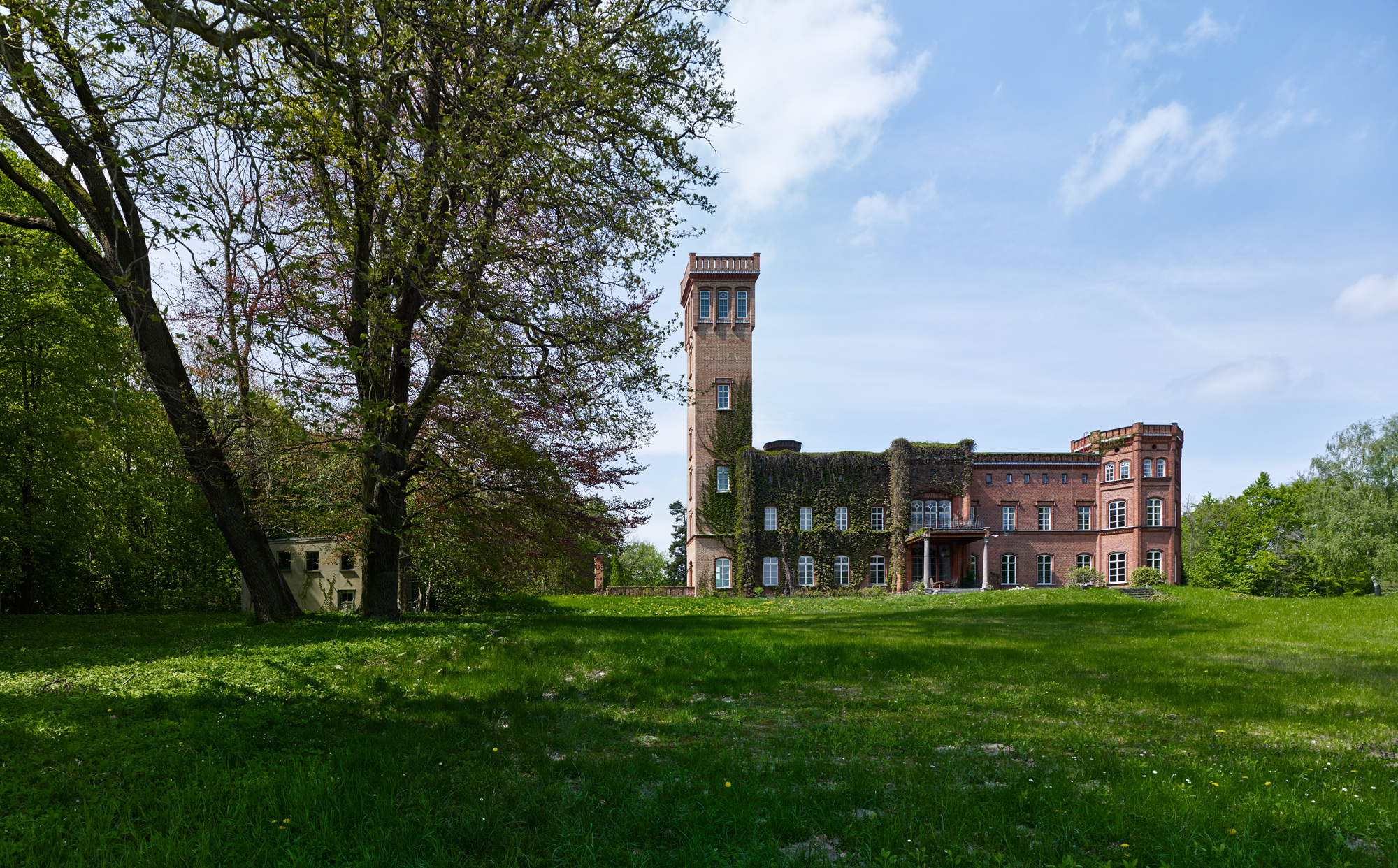 Schloss Arendsee in the Uckermark